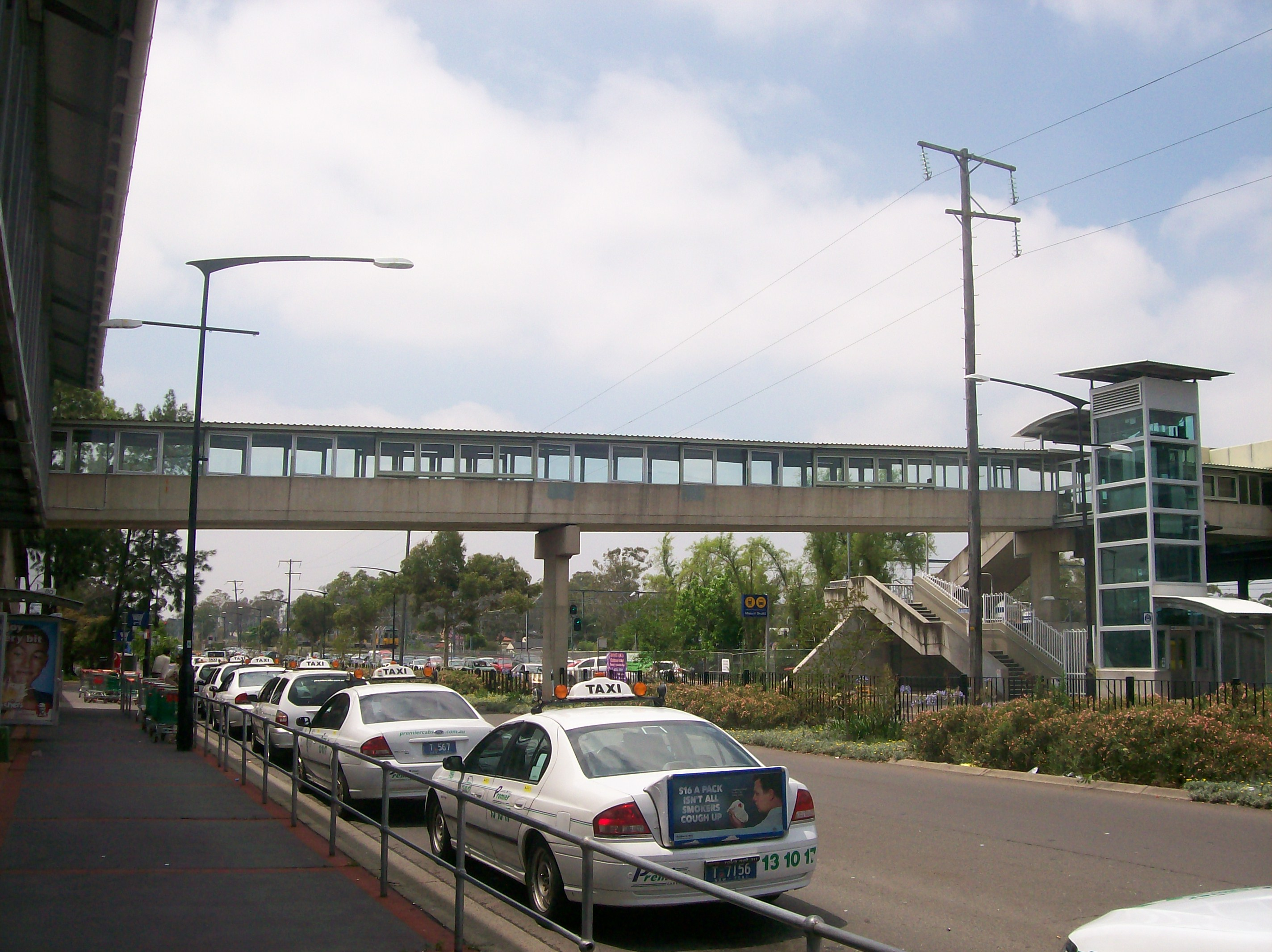 Mt Druitt railway station interchange 5